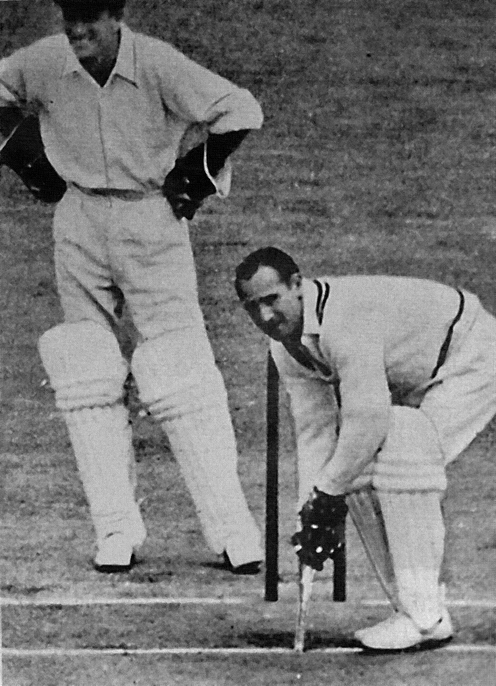 Sid Barnes using a miniature bat during the Bradman Testimonial. Don Tallon is the wicket-keeper.